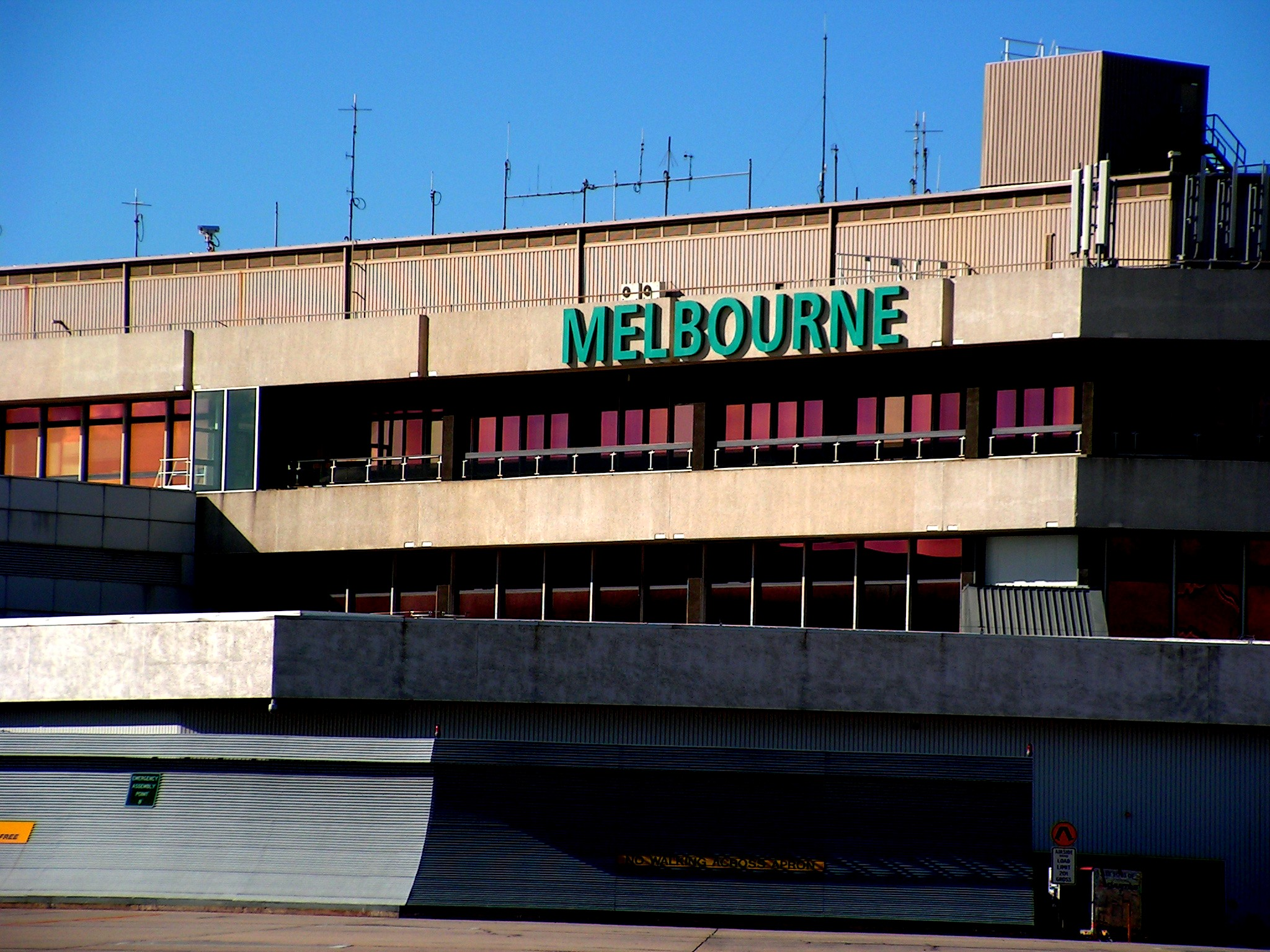 Picture of Melbourne Airport